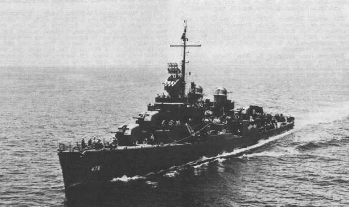 The U.S. Navy destroyer USS Stanly (DD-478) underway at sea, circa in 1943.